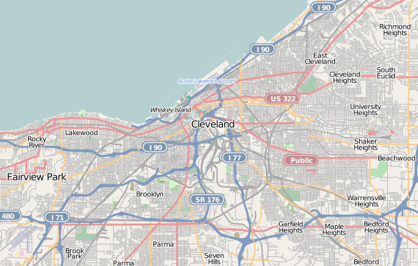 This map of Cleveland, Ohio was created from OpenStreetMap project data, collected by the community. This map may be incomplete, and may contain errors. Don't rely solely on it for navigation.